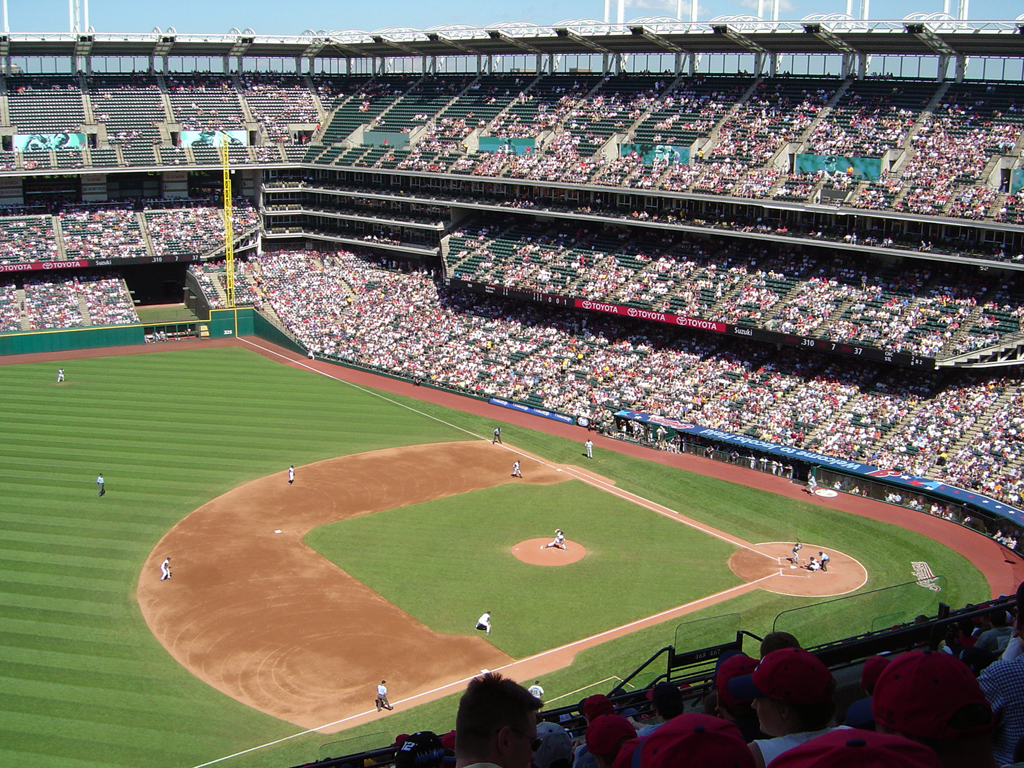 Jacobs Field in Cleveland, Ohio. Cleveland Indians vs. Seattle Mariners